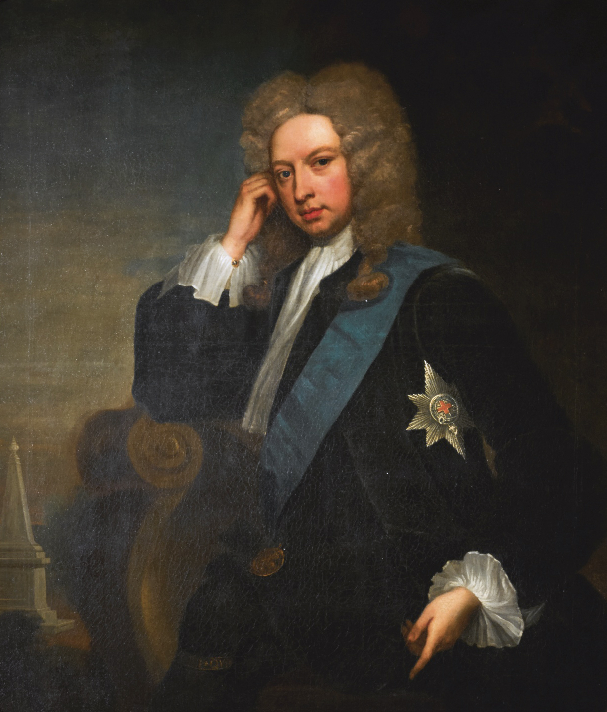 Henry Grey, 1st Duke of Kent (1671 - 1740) oil on canvas 125.7 x 99.6 cm inscribed b.l.: Henry Duke of Kent